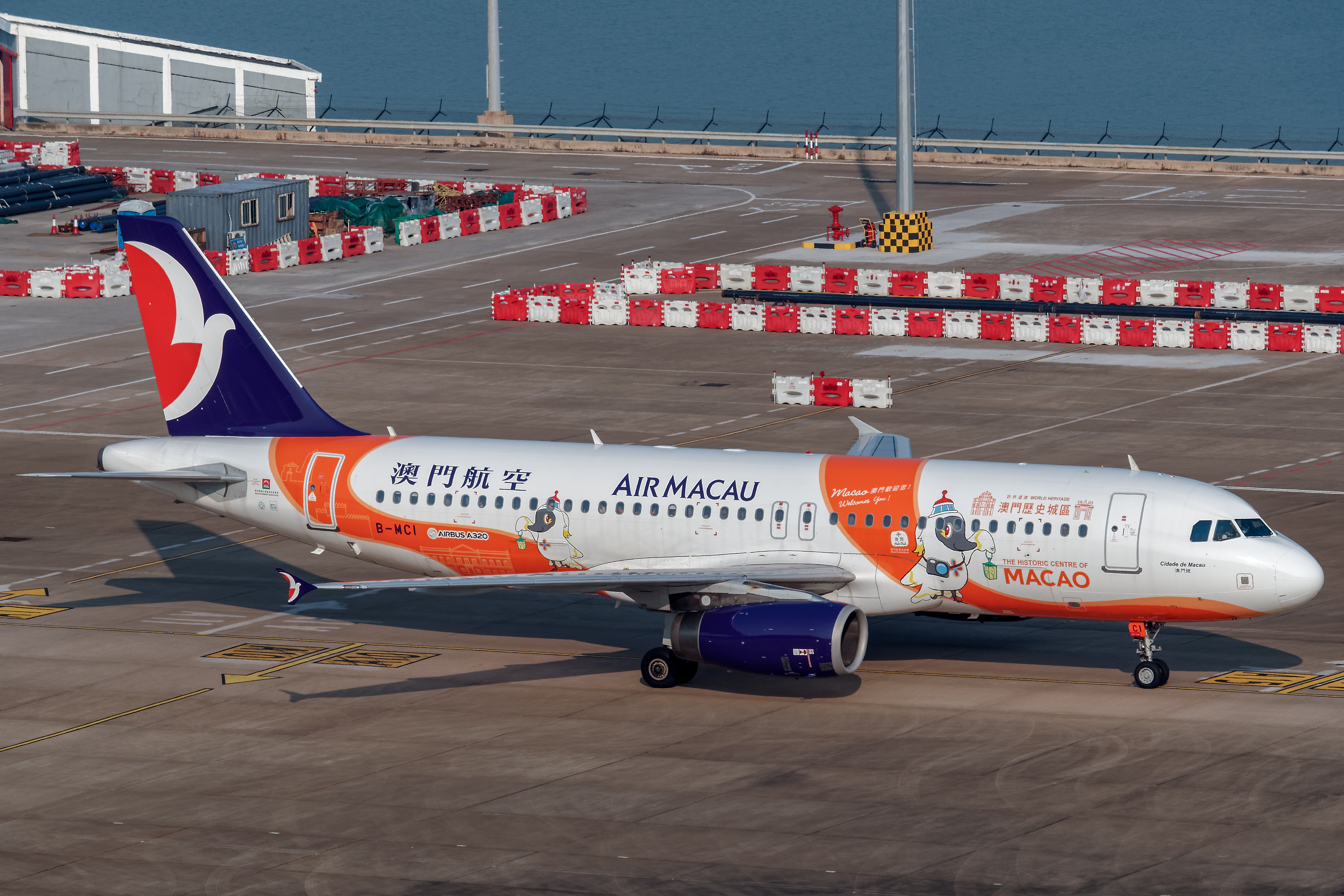 Air Macau Airbus A320-200 B-MCI